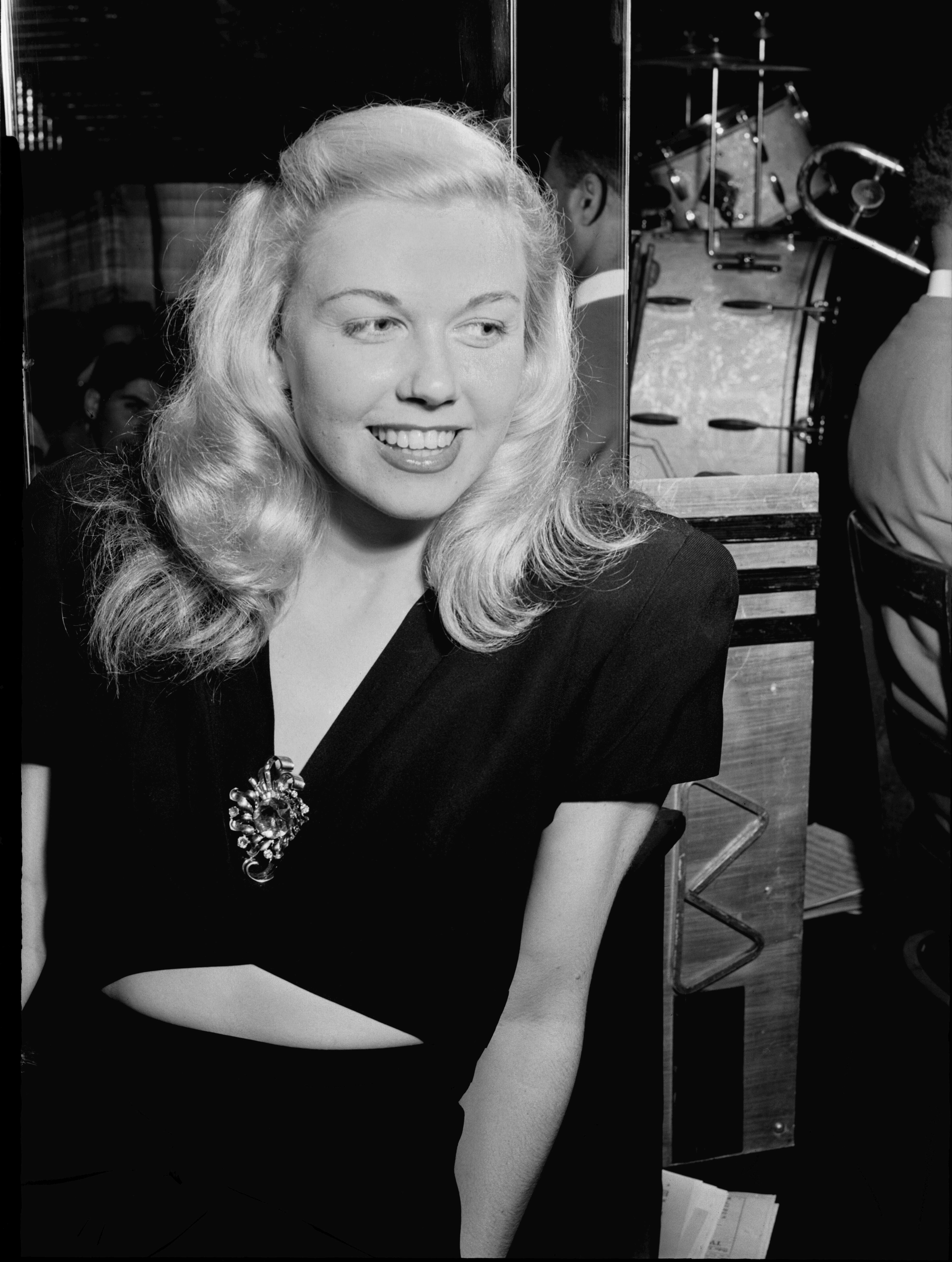 Portrait of Doris Day, Aquarium, New York, N.Y., ca. July 1946.